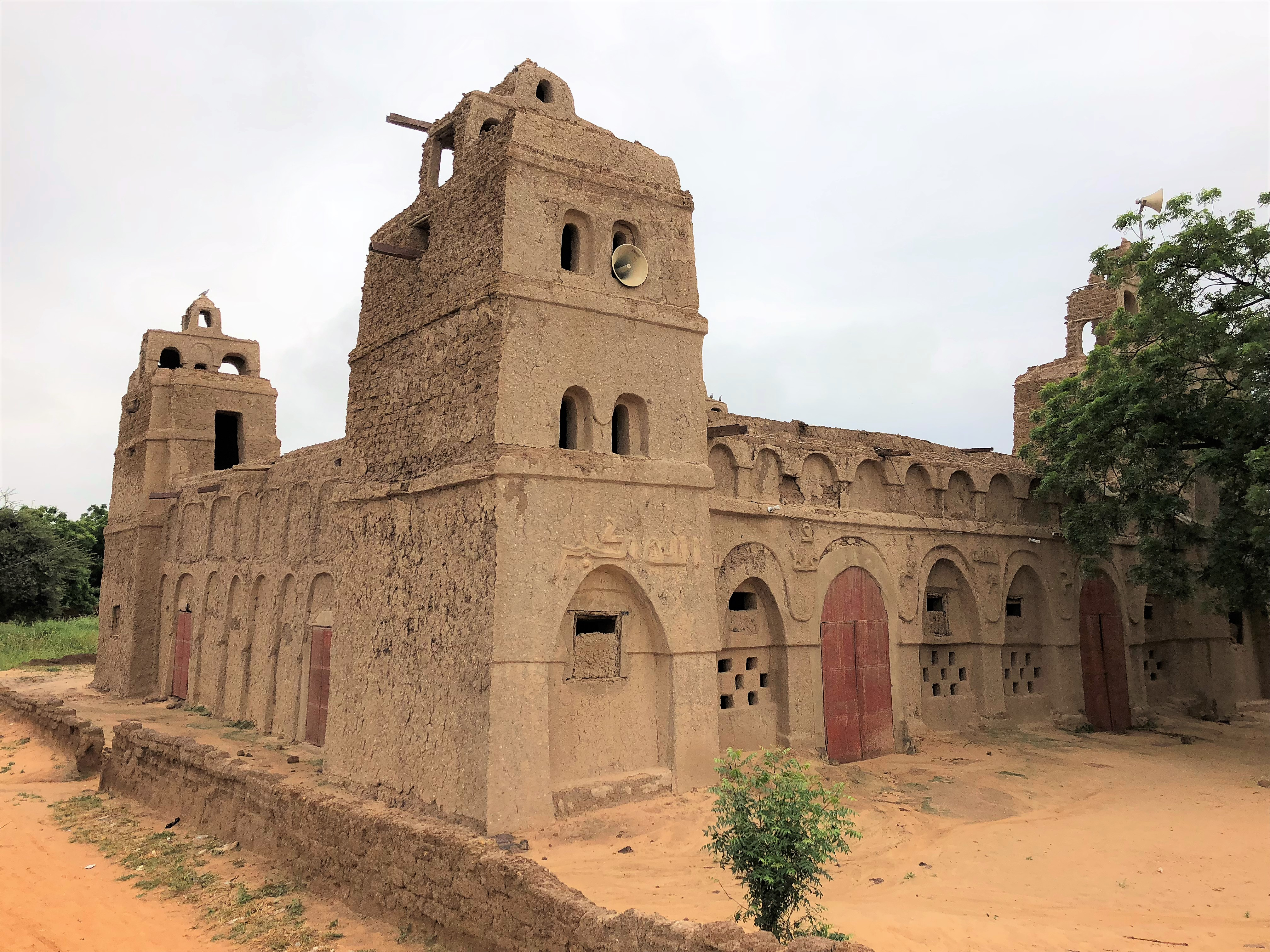 The mosque in Salewa, in Niger (Tahoua region; Birni N'Konni department, Malbaza commune).